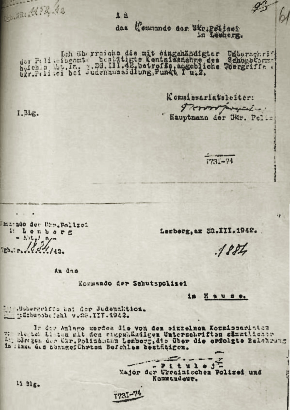 1942 correspondence in German of the Ukrainian Auxiliary Police at Lemberg concerning "Judenaktion"